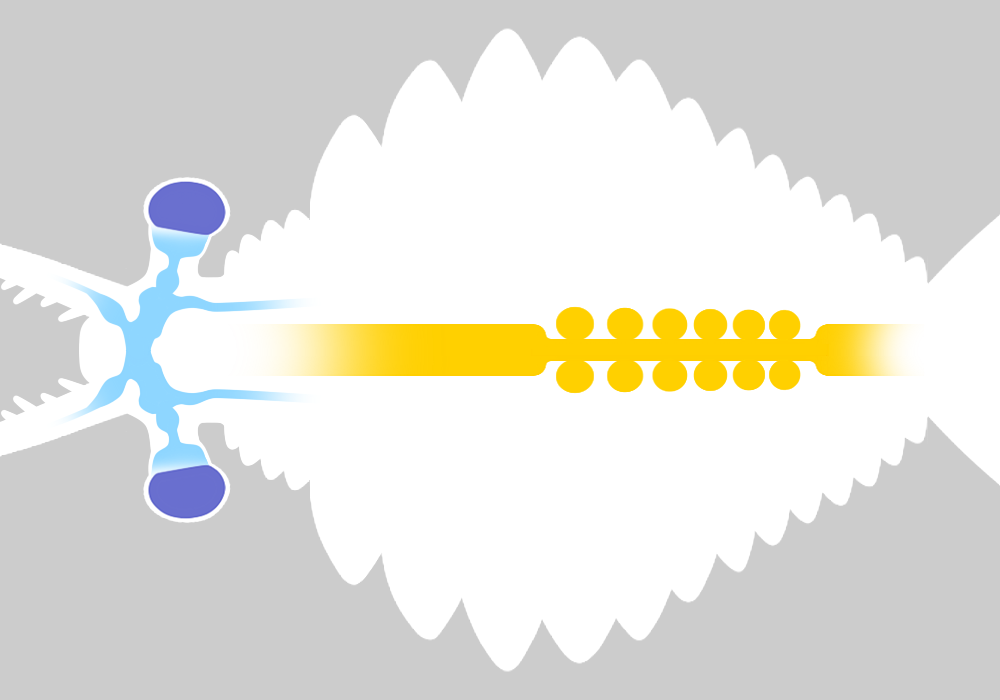 Eyes (deep blue), brain (light blue) and digestive system (yellow) of a radiodont, showing arrangement of cerebral neurons, digestive glands and differentiated gut sections. Fade-out sections indicating unreveal regions.